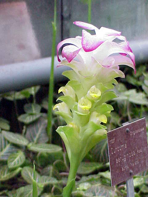 Species: Curcuma aeruginosa Family: Zingiberaceae Image No. 2